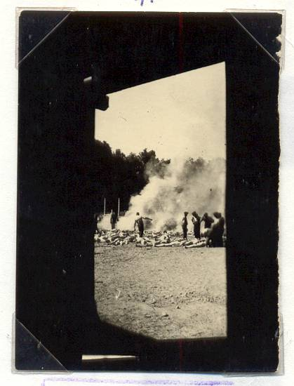 One of four photographs from Auschwitz-Birkenau in German-occupied Poland, part of a series known as the Sonderkommando photographs. The photograph shows bodies waiting to be burned. Bodies were burned in outdoor fire pits when the crematoria were full.